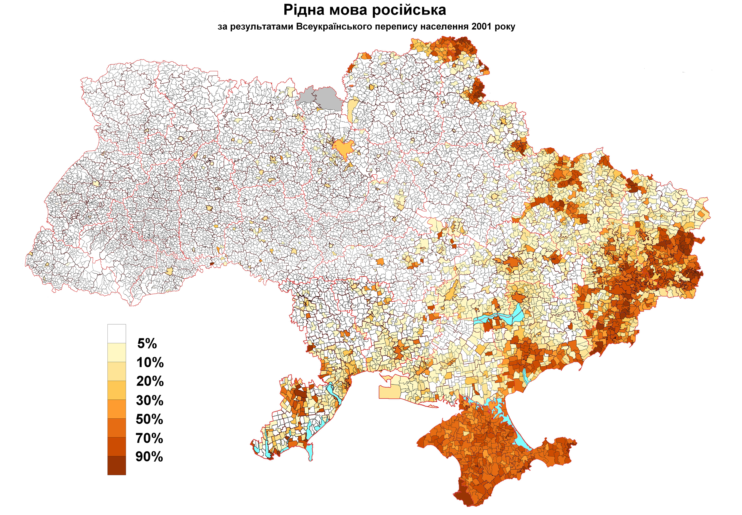 Russian as native language in urban and rural municipalities of Ukraine according to 2001 census